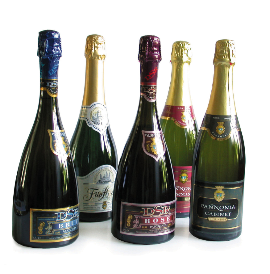 Bottles of Littke pezsgo.